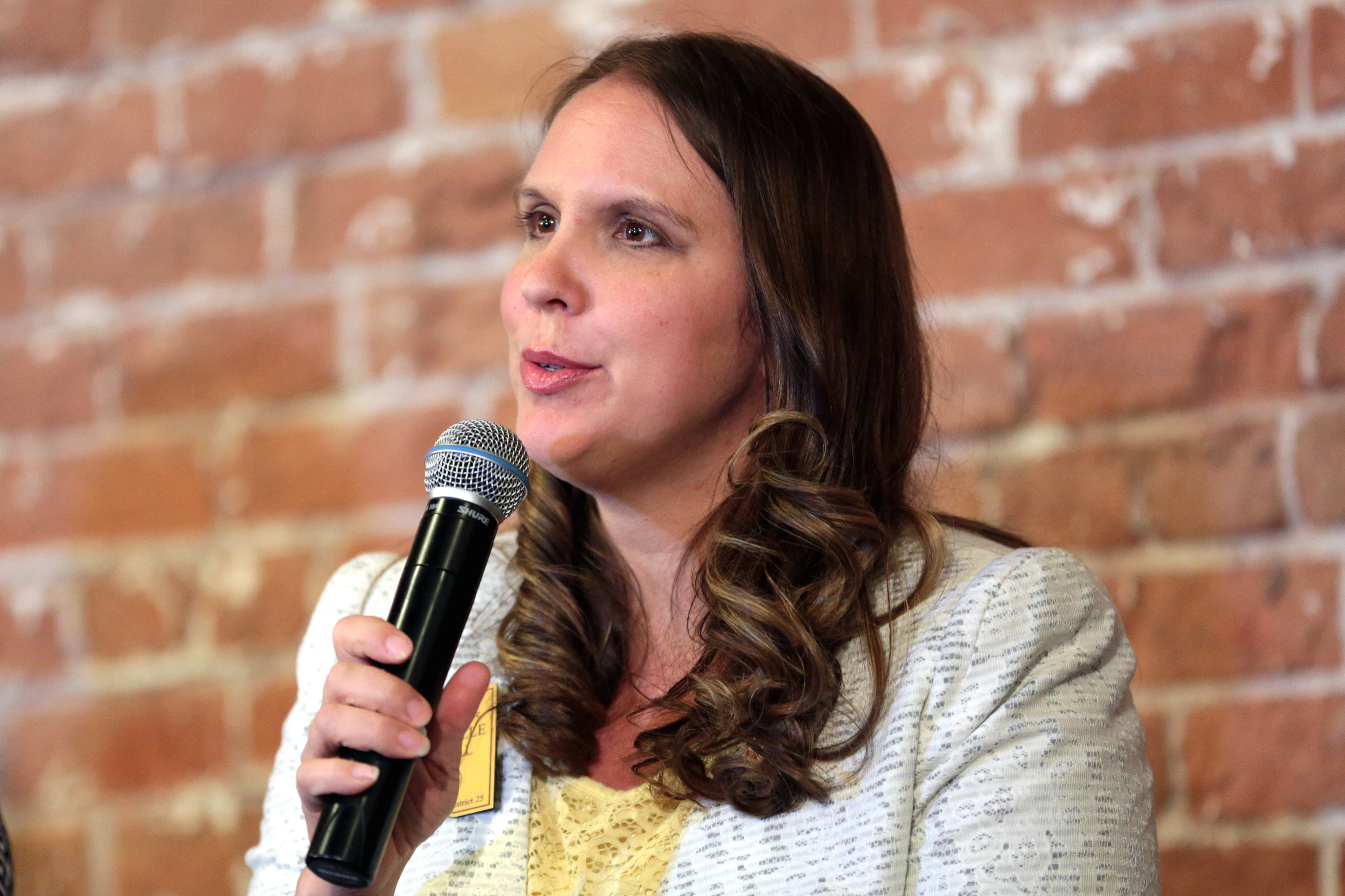 State Representative Michelle Udall speaking at a "New Voices Forum" hosted by the Arizona Hispanic Chamber of Commerce at the A. E. England Building in Phoenix, Arizona.